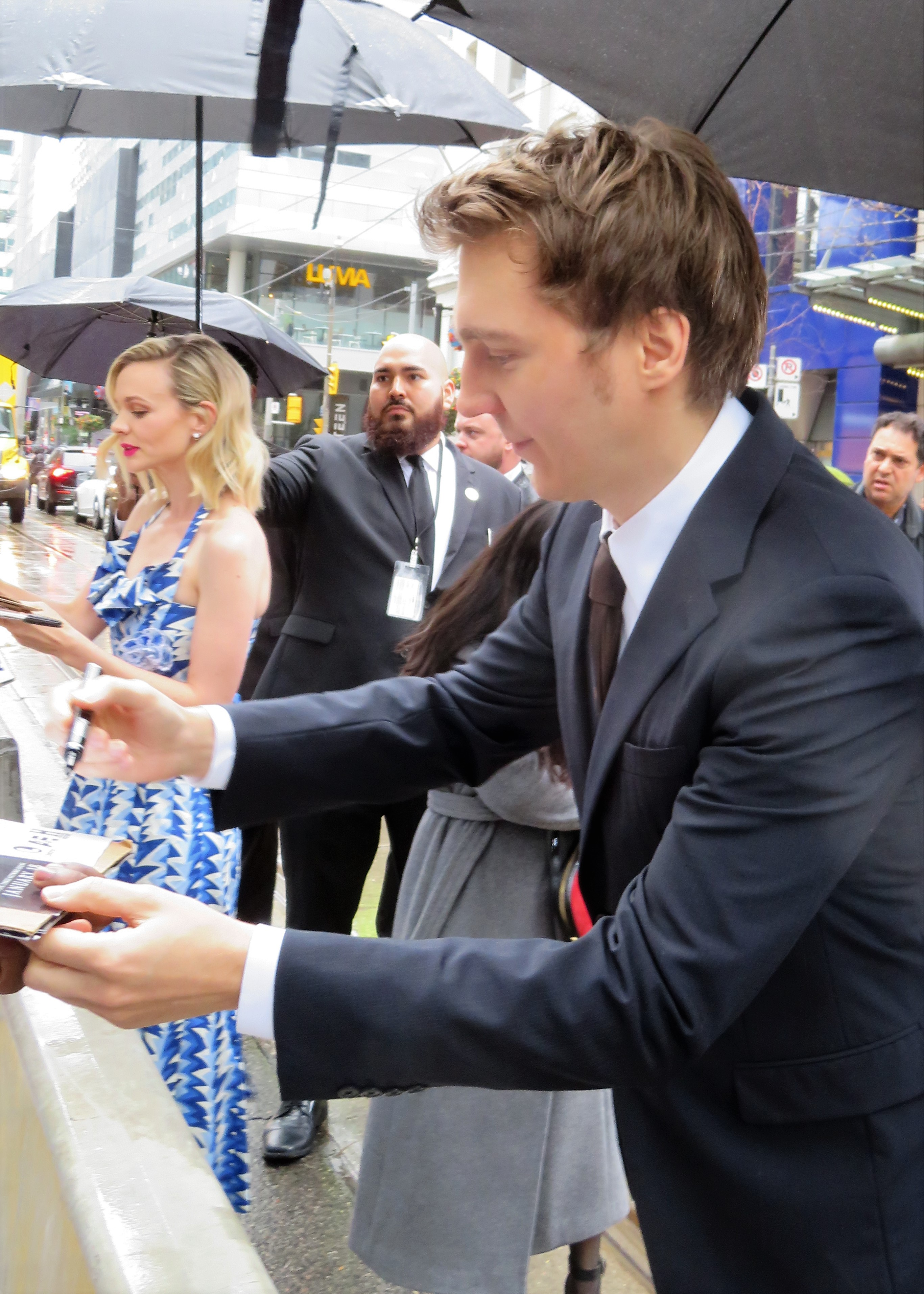 Carey Mulligan and Paul Dano at the premiere of Wildlife, 2018 Toronto Film Festival